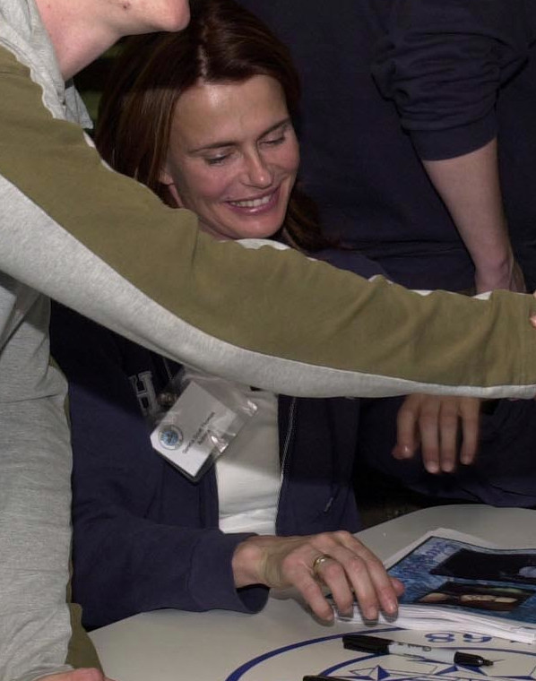 Pacific Ocean (Mar. 21, 2005) - Jonathan Tucker, left, and Serena Scott Thomas, whom star in the new film, "Hostage", sign autographs and greet Sailors on the aft mess decks after a premiere screening of “Hostage” aboard the nuclear powered aircraft carrier USS Nimitz (CVN 68). Nimitz and Carrier Strike Group Eleven (CSG-11) are currently conducting a Joint Task Force Training Exercise (JTFEX) off the coast of southern California. U.S. Navy photo by Photographer’s Mate Airman Ashley Gayton (RELEASED)